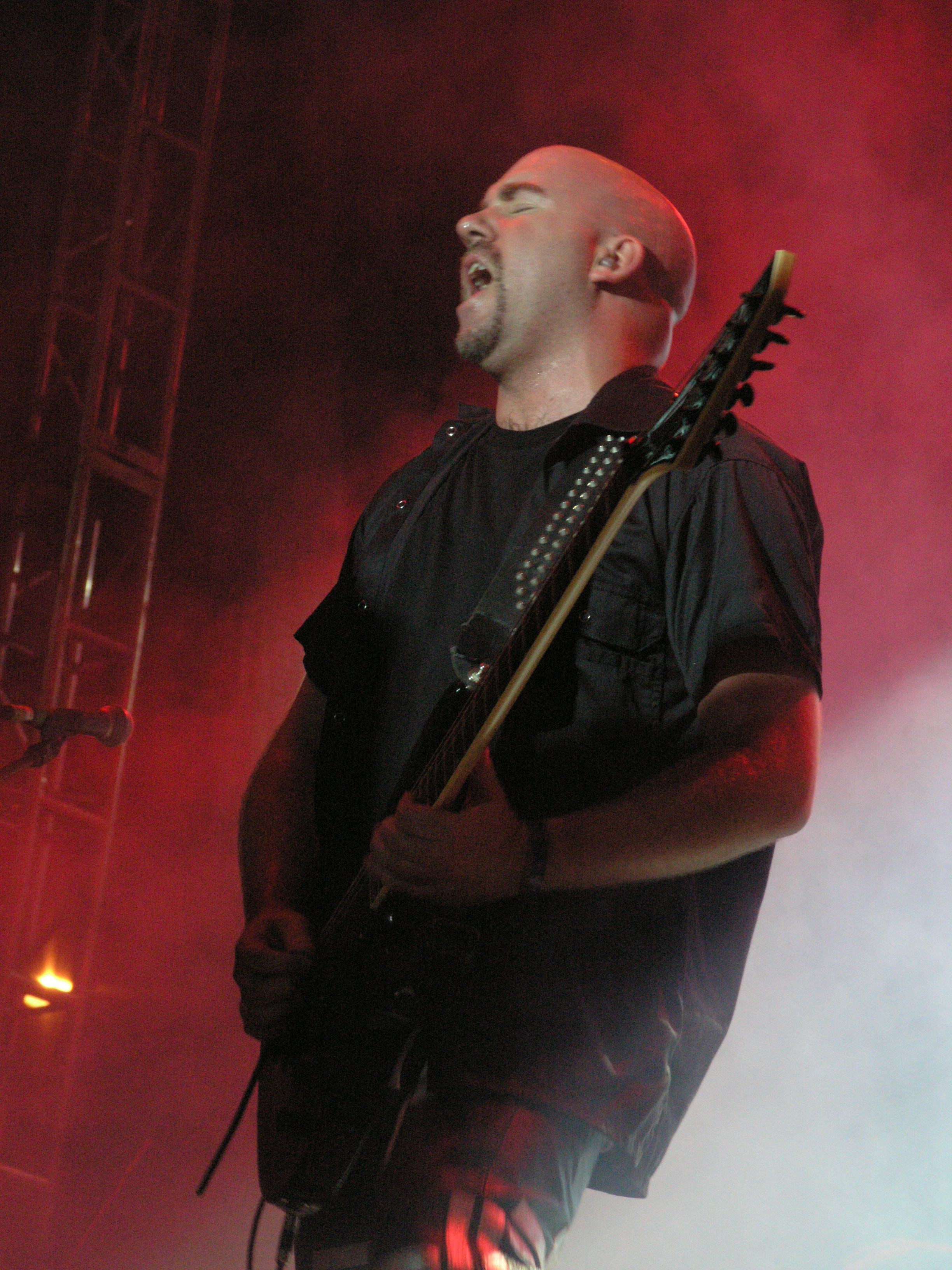 Stefan Elmgren from Hammerfall during Masters of Rock 2007 festival